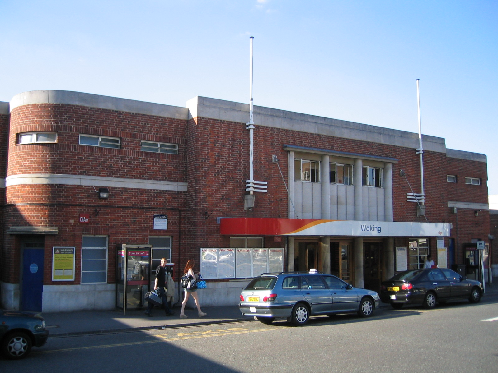 The southern exterior of Woking railway station, Woking, Surrey, UK. Photo taken by me 2005-08-21.